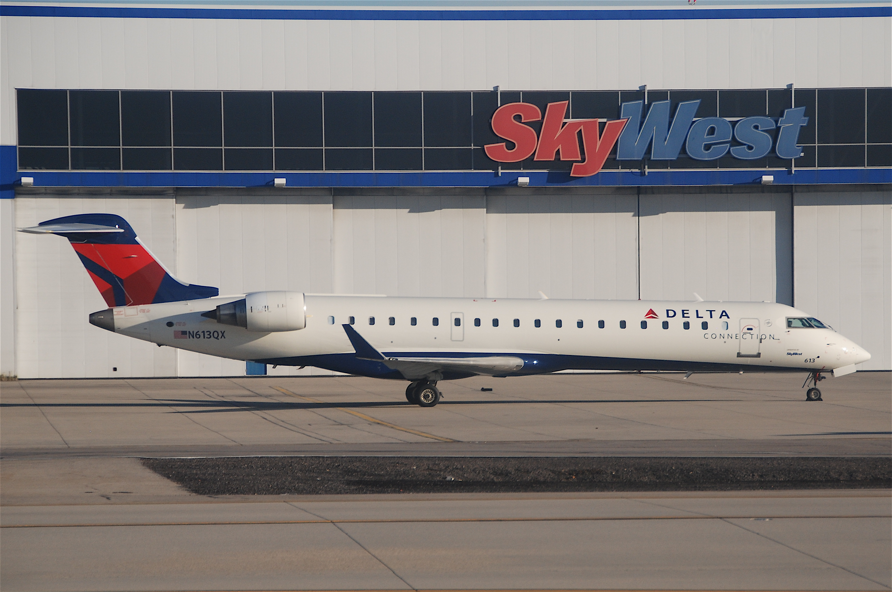 Delta Connection Canadair CRJ700; N613QX@SLC;09.10.2011/621ab